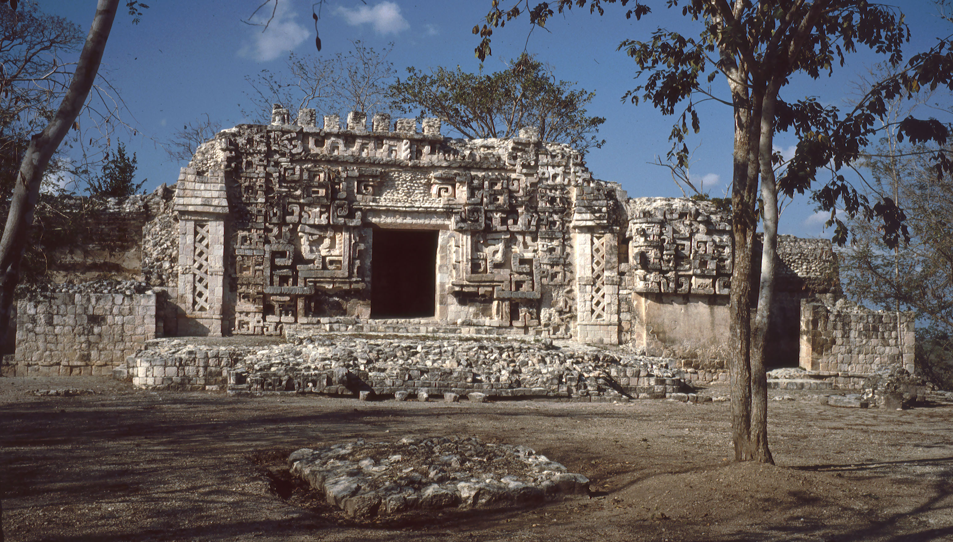 Hochob, Campeche, Mexico, building II.